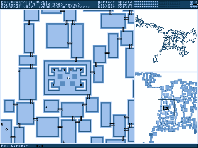 The automap feature in the free game Meritous